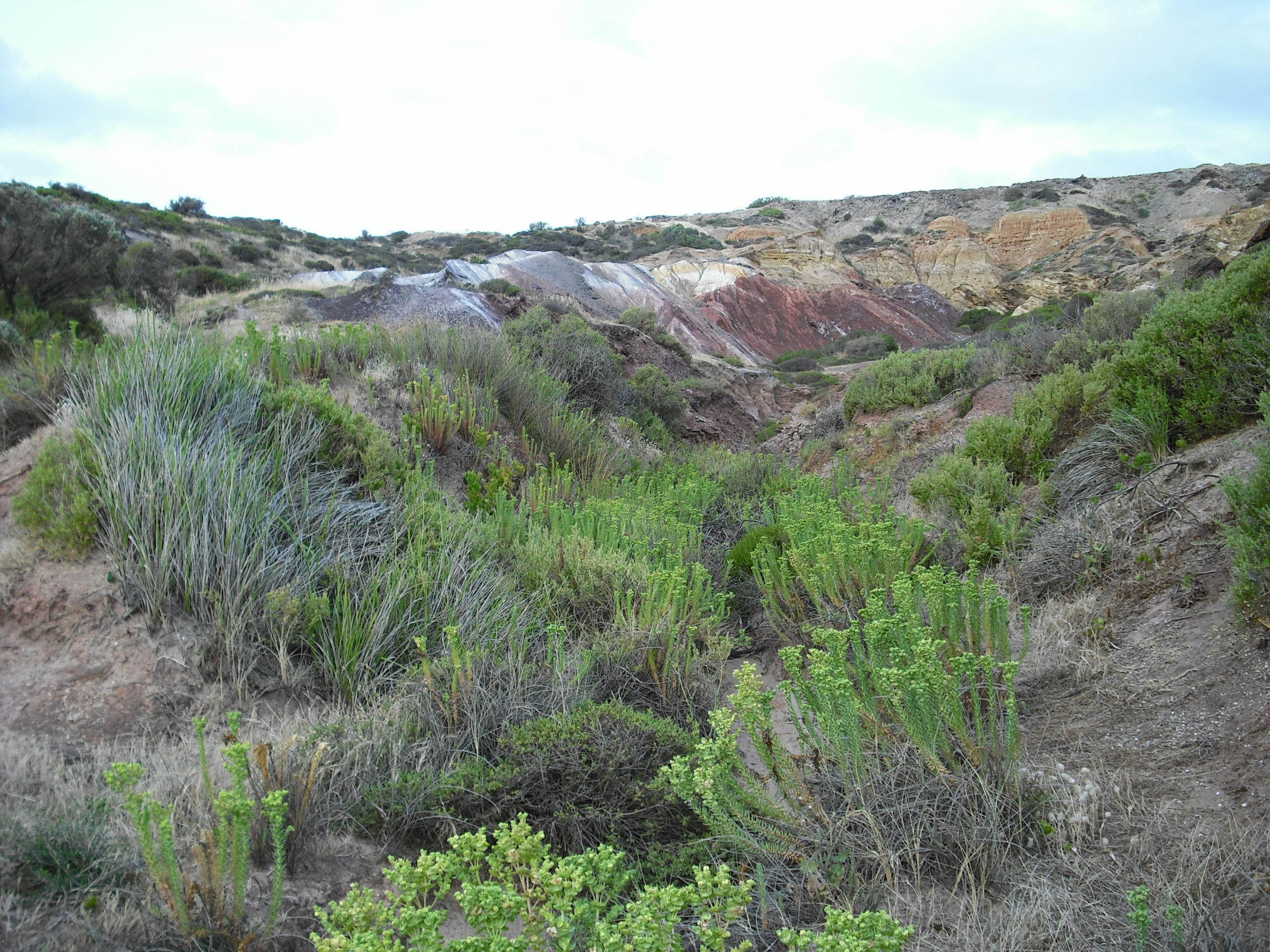 In the Ochre Point area (border of Moana, SA and Maslin Beach, SA, near the shore of Gulf Saint Vincent